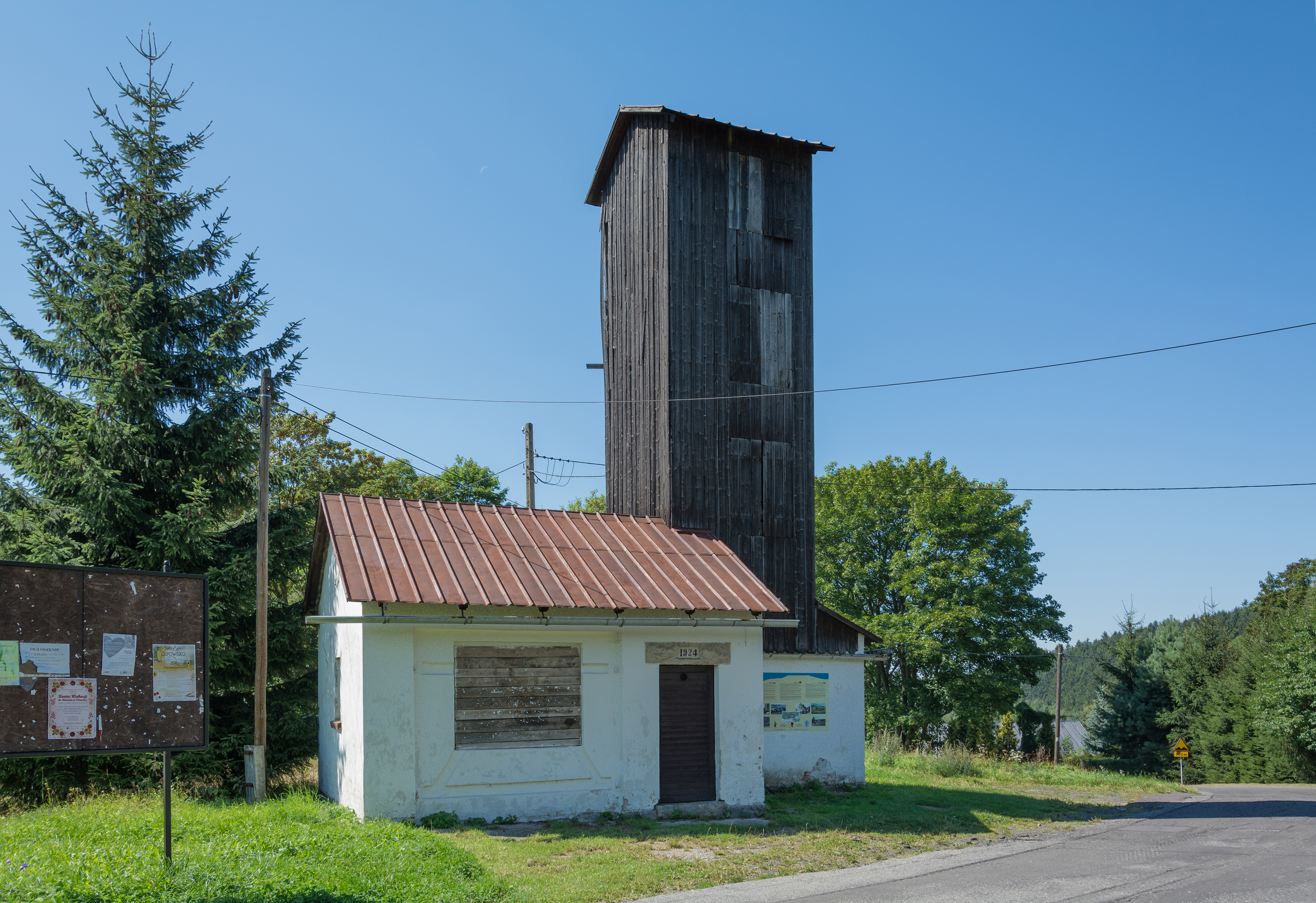 Former fire station in Pstrążna